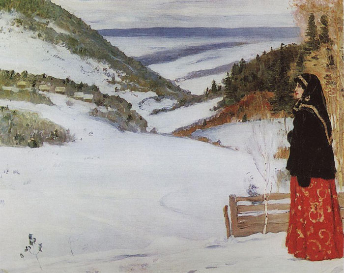 Winter in Skit - Oil on canvas.